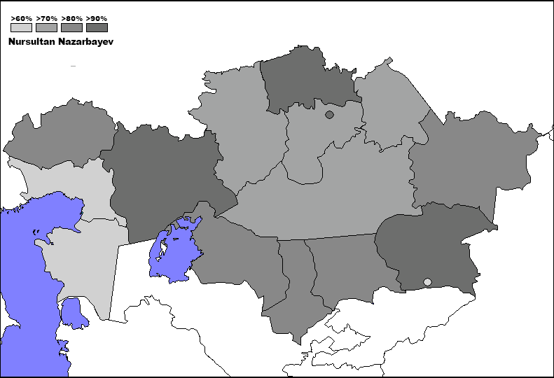 Map of results of the 1999 Kazakh presidential election by regions. More than 90% More than 80% More than 70% More than 60%